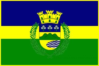 Flag of Luquillo, Puerto Rico